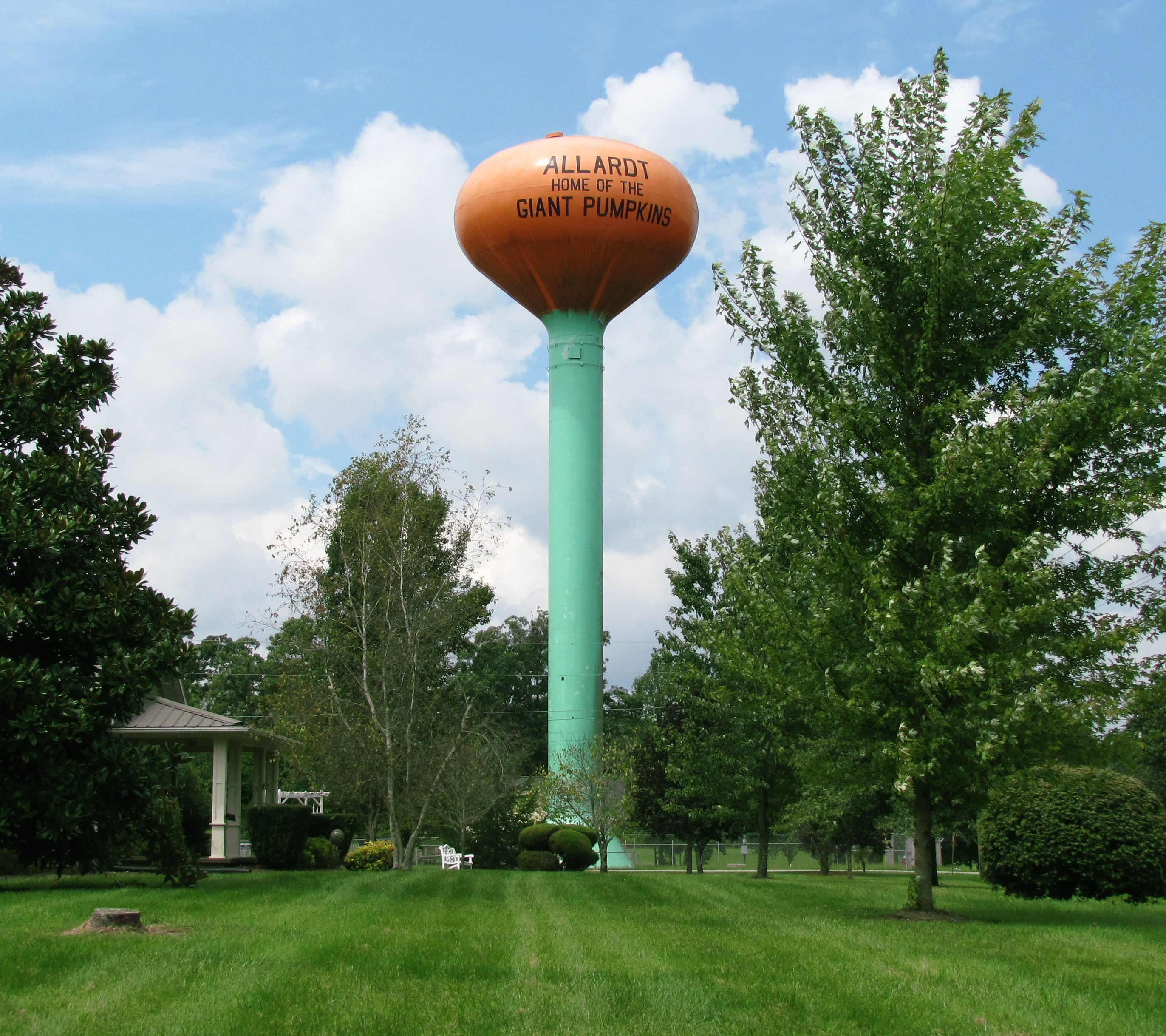 Water tower with pumpkin-shaped reservoir along Tennessee State Route 52 in Allardt, Tennessee, United States.